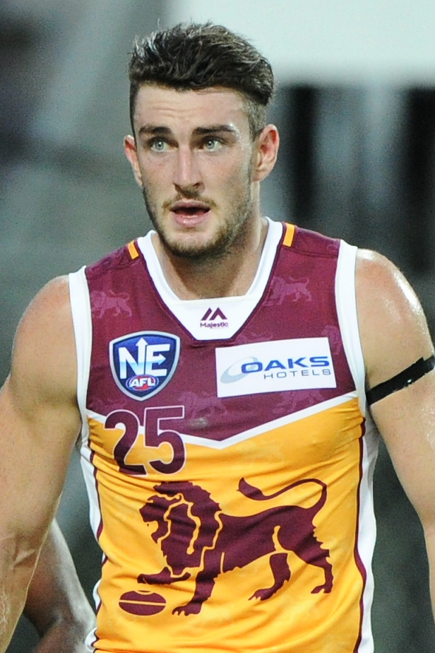 Dan McStay of the Brisbane Lions during the NEAFL round one match between NT Thunder and Brisbane Lions at TIO Stadium on 7 April 2018 in Darwin, Australia.